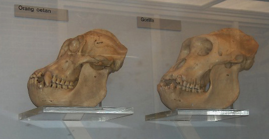 Skulls of an orangutang and a gorilla